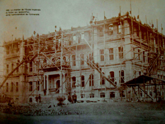 Salonica Idadiye 1887 - 1888